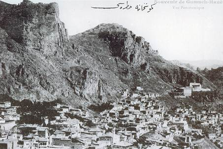 Old Gumushane, 1910's Ottoman era postcard